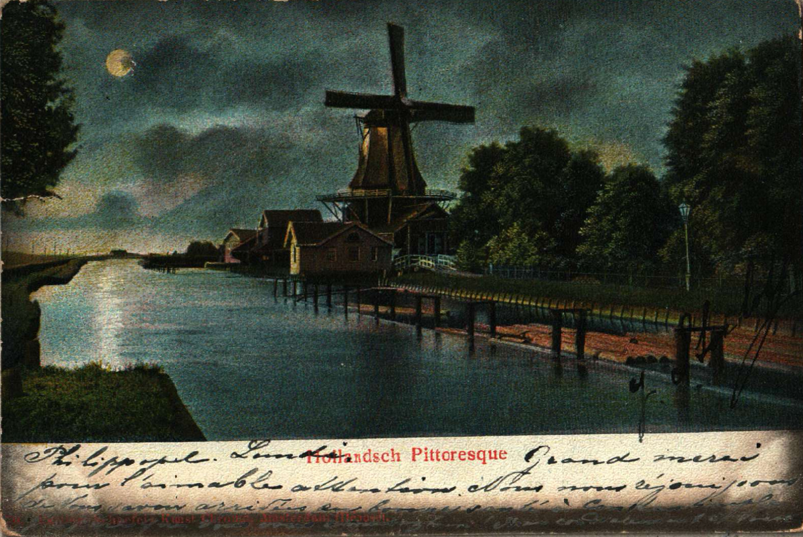 Postcard